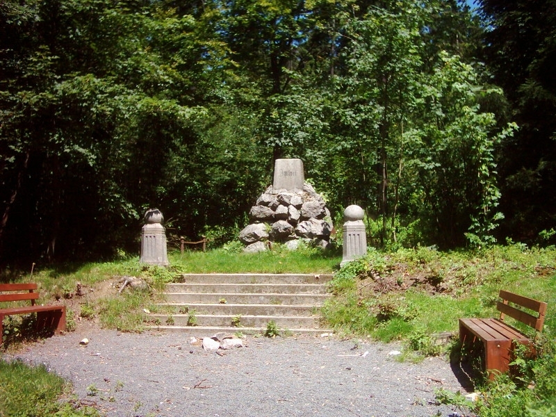 Friedrich Ludwig Jahn Memorial, Aš, Karlovy Vary Region, Czech Republic